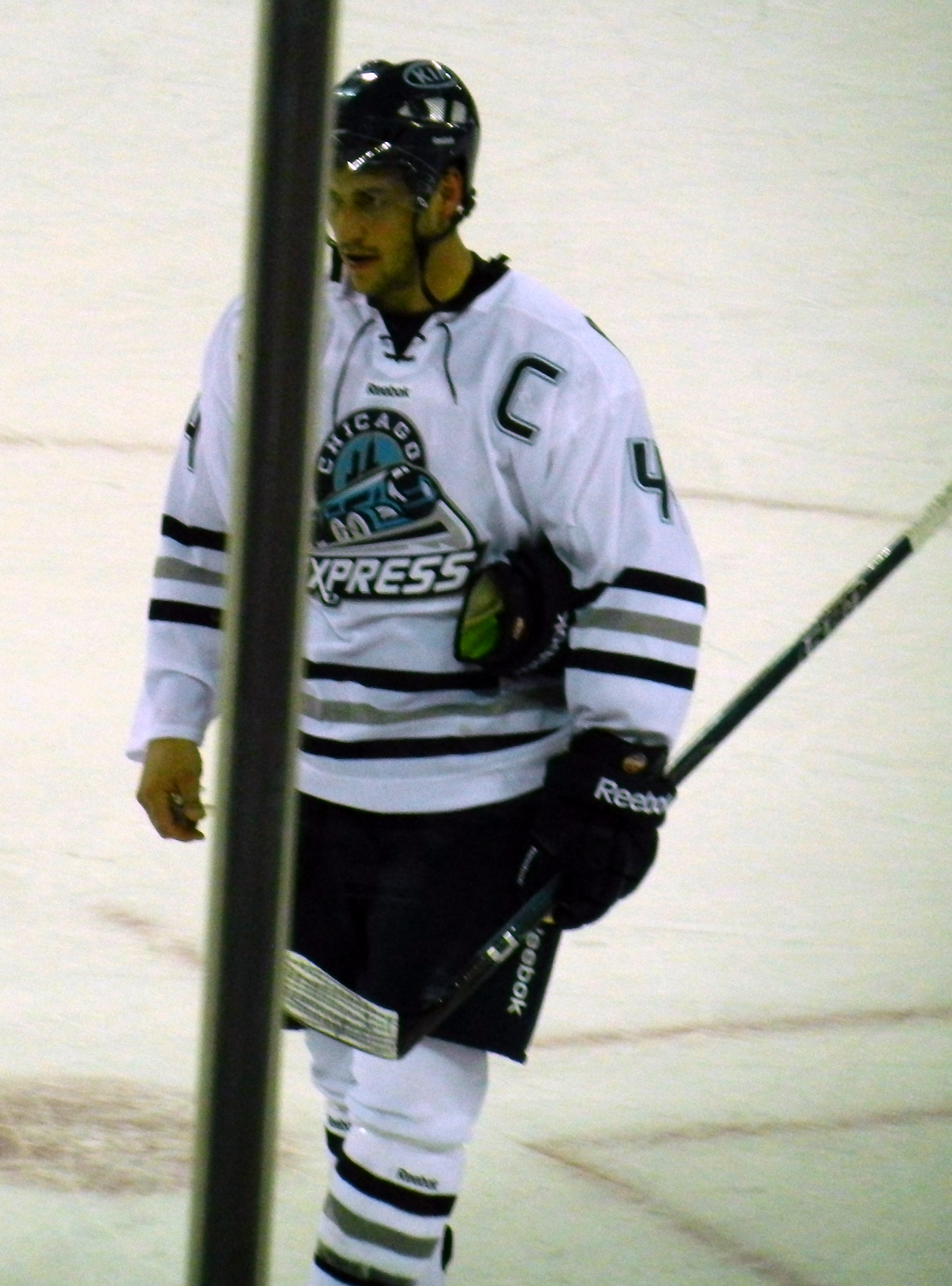 Nathan Lutz playing for the Chicago Express in 2011